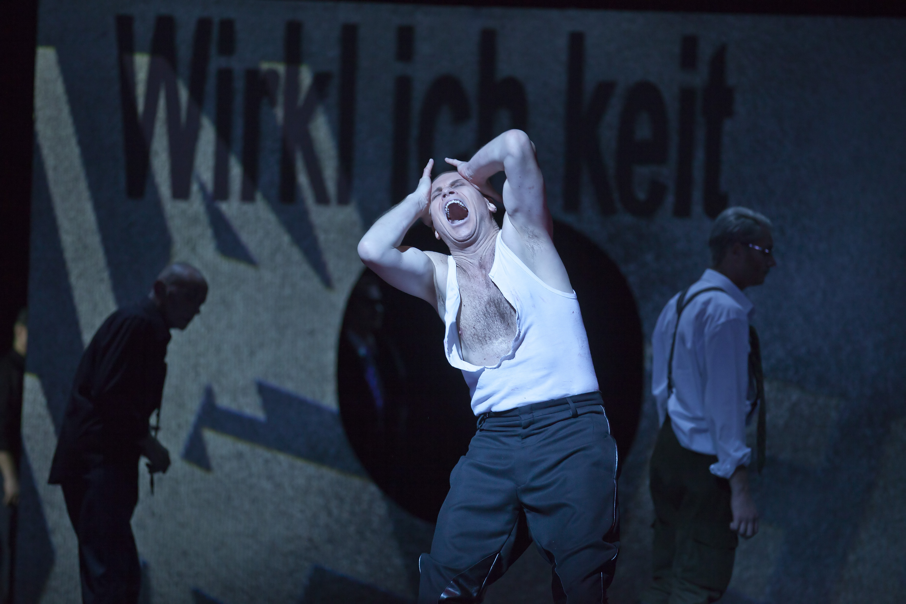 Production of Lear at Hamburgische Staatsoper 2012, stage photo: Bo Skovhus as Lear (foreground), Erwin Leder as the Fool (background, left) and Lauri Vasar as the Duke of Gloucester (background, right).